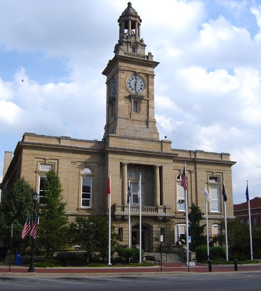 Ohio - Huron County Courthouse 07-04-07 By:Mike Sharp.